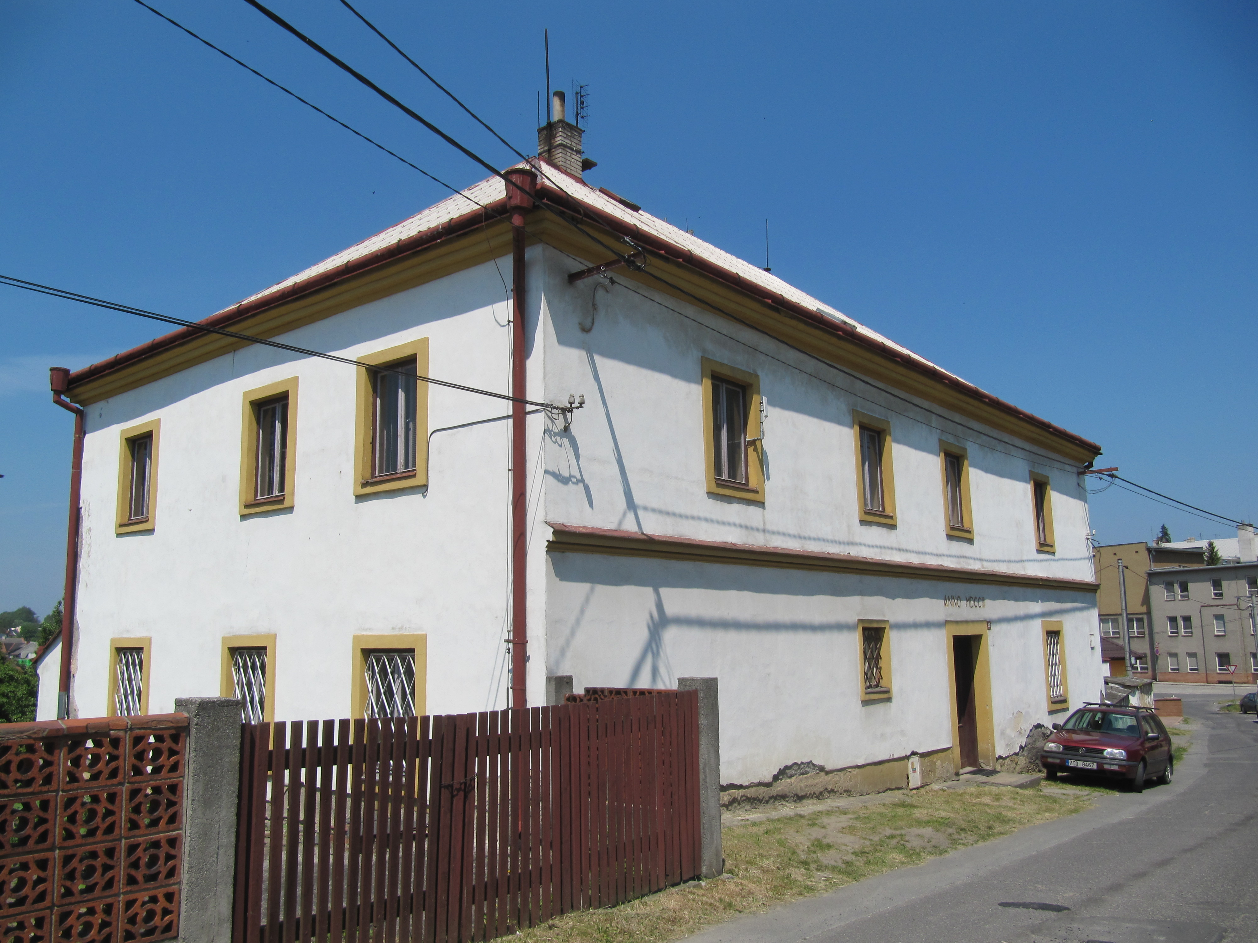 Vítkov, Opava District, Czech Republic.